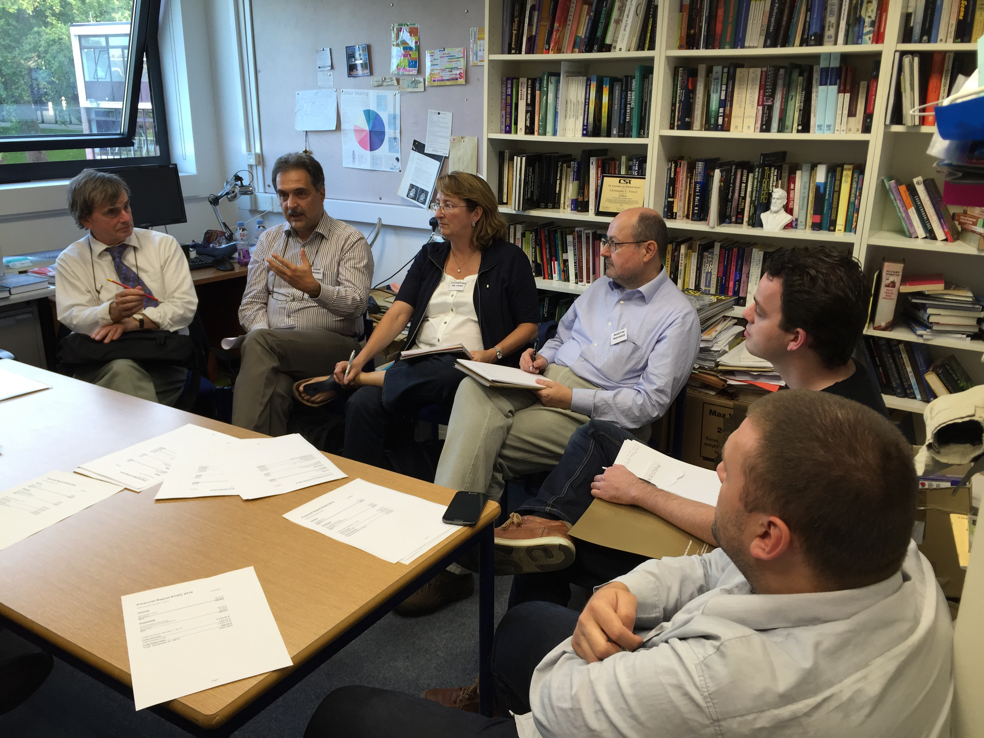 Meeting of the representatives of member organisations of ECSO (European Council of Skeptical Organisations) after the Friday afternoon session of European Skeptics Congress 2015 in London.